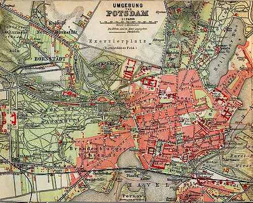 Map of Potsdam